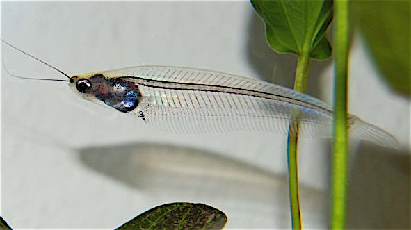 Kryptopterus